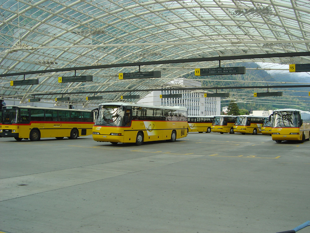 Description: "Postautos" in Chur, Switzerland Source: Photograph taken on July 10, 2005 Photographer: User:Breeze